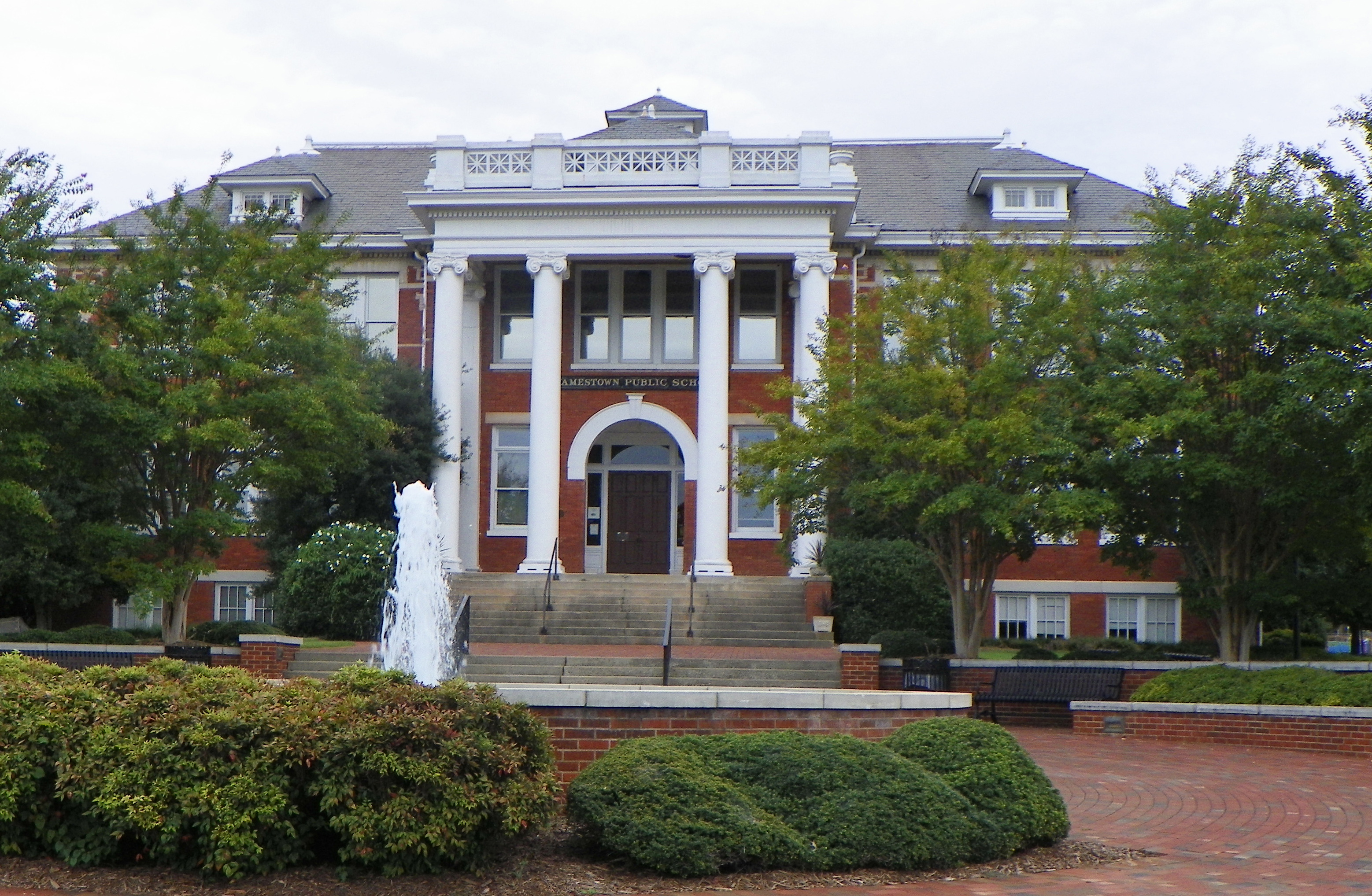 Former Jamestown High School, 200 W. Main St. Jamestown. Now used as the Jamestown Public Library.